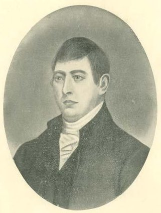 Richard John Uniacke Source: Archives de Montreal; Nova Scotia Archives